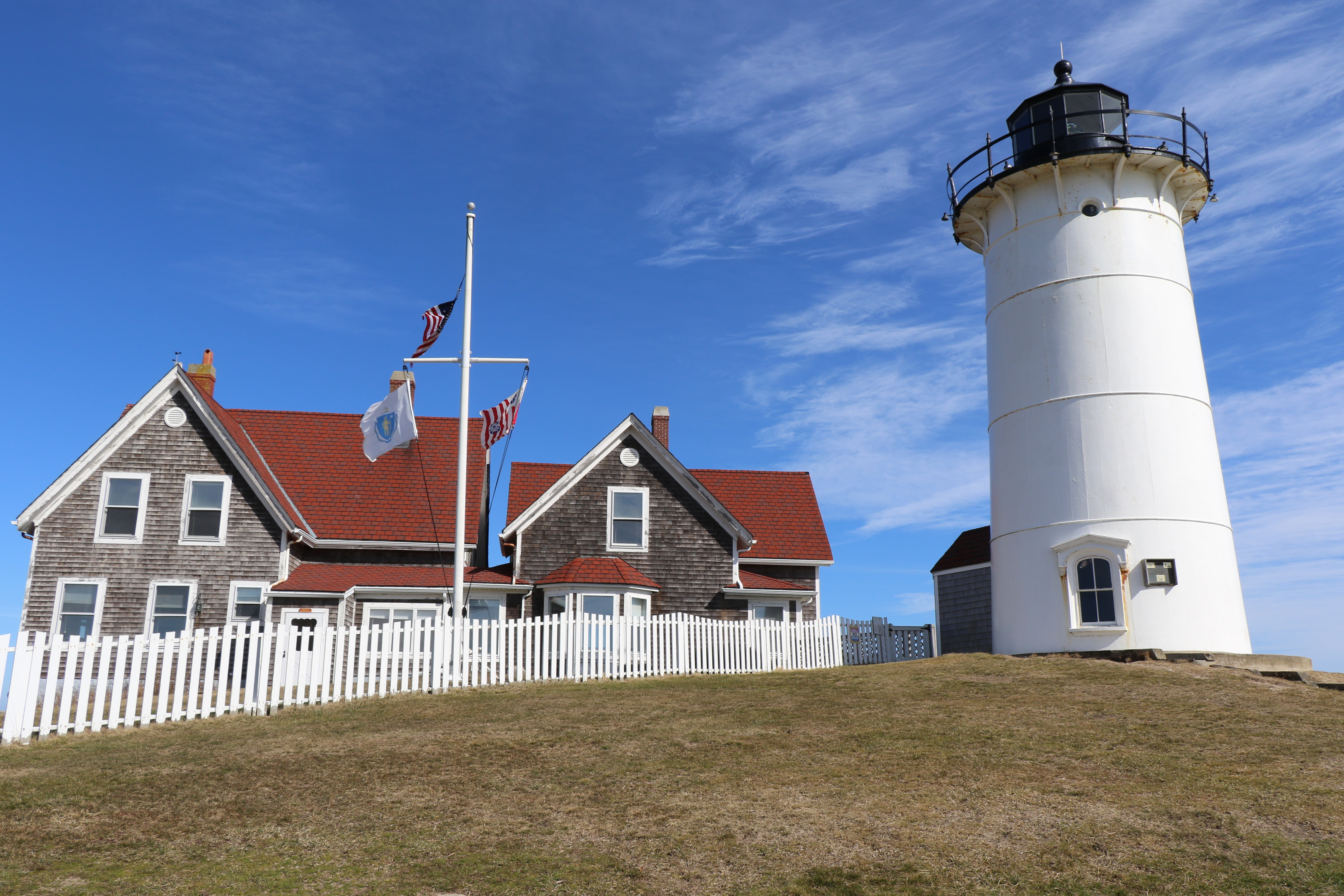 Nobska Light and the keepers house, on a March day.